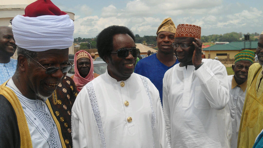 Oseni(L) with international musician, Sir Victor Uwaifo(M) and his son, Dr Muhammad Oseni(R)